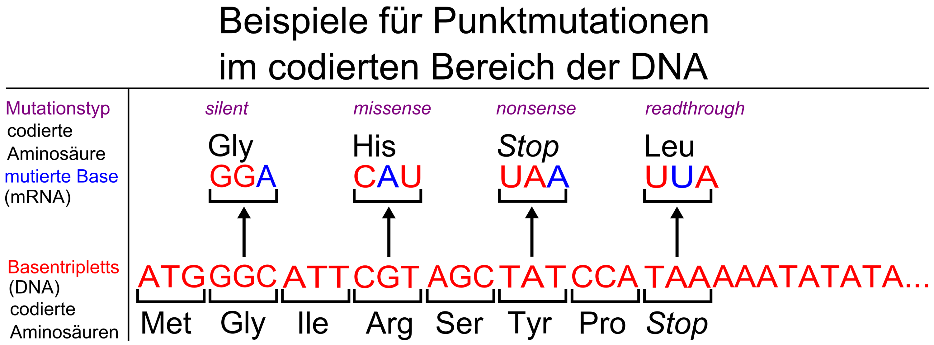 Four types of a point mutation.